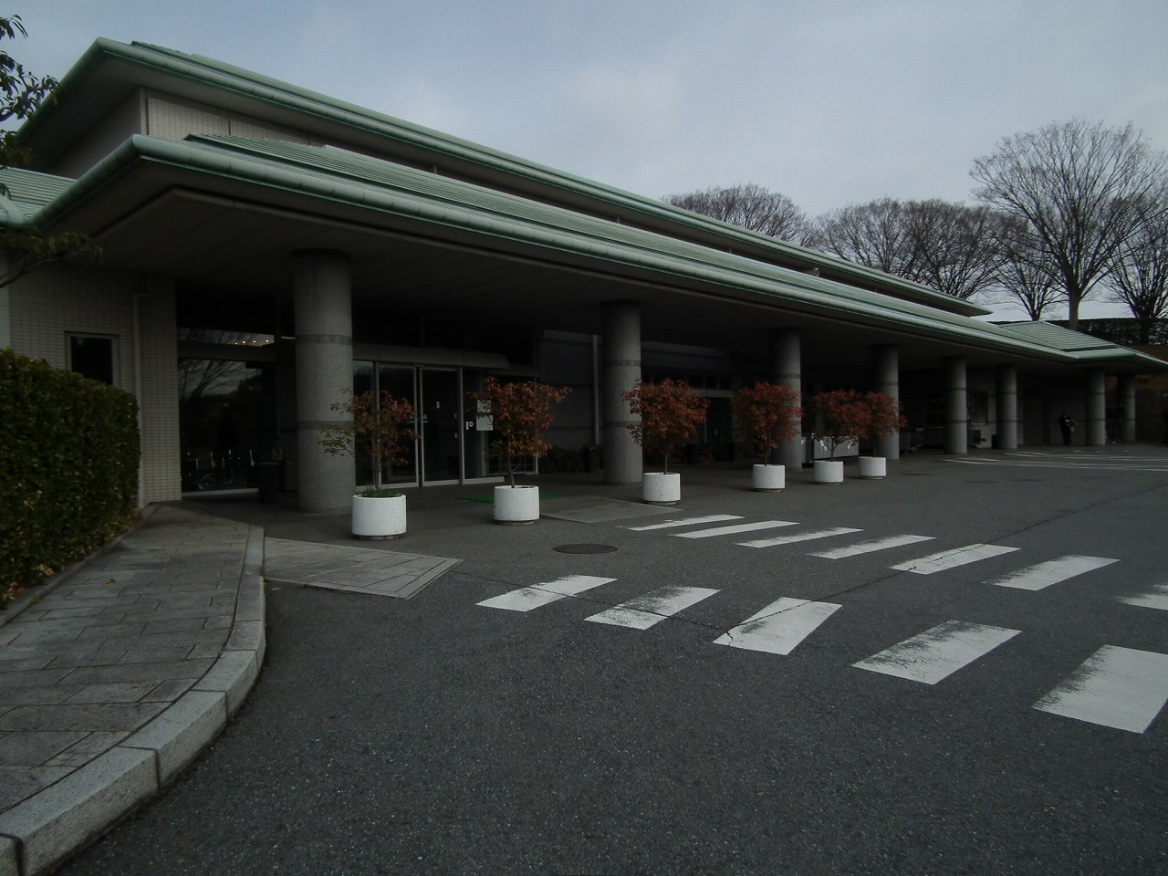 Nagoyama-saijo Himeji